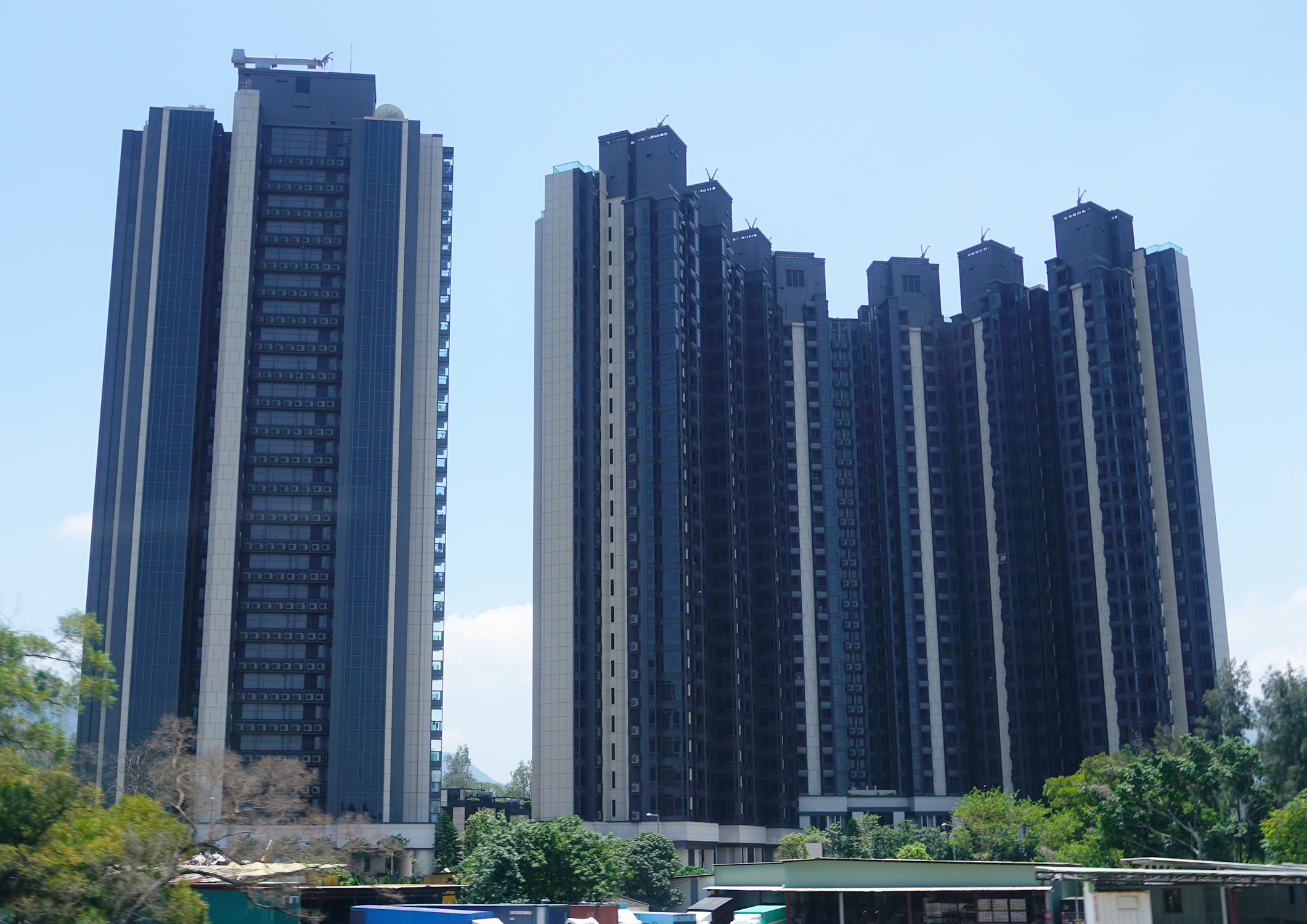 Eden Manor, Hong Kong.